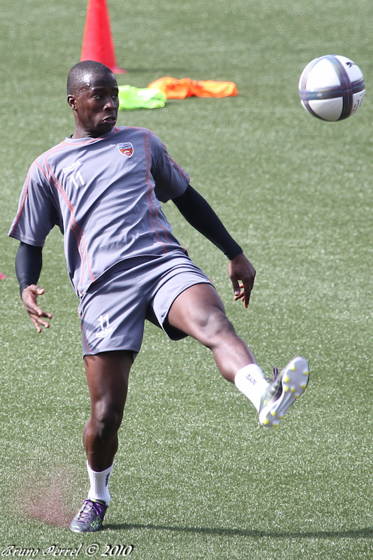 Sigamary Diarra, player from the FC Lorient during a practice in september 2010